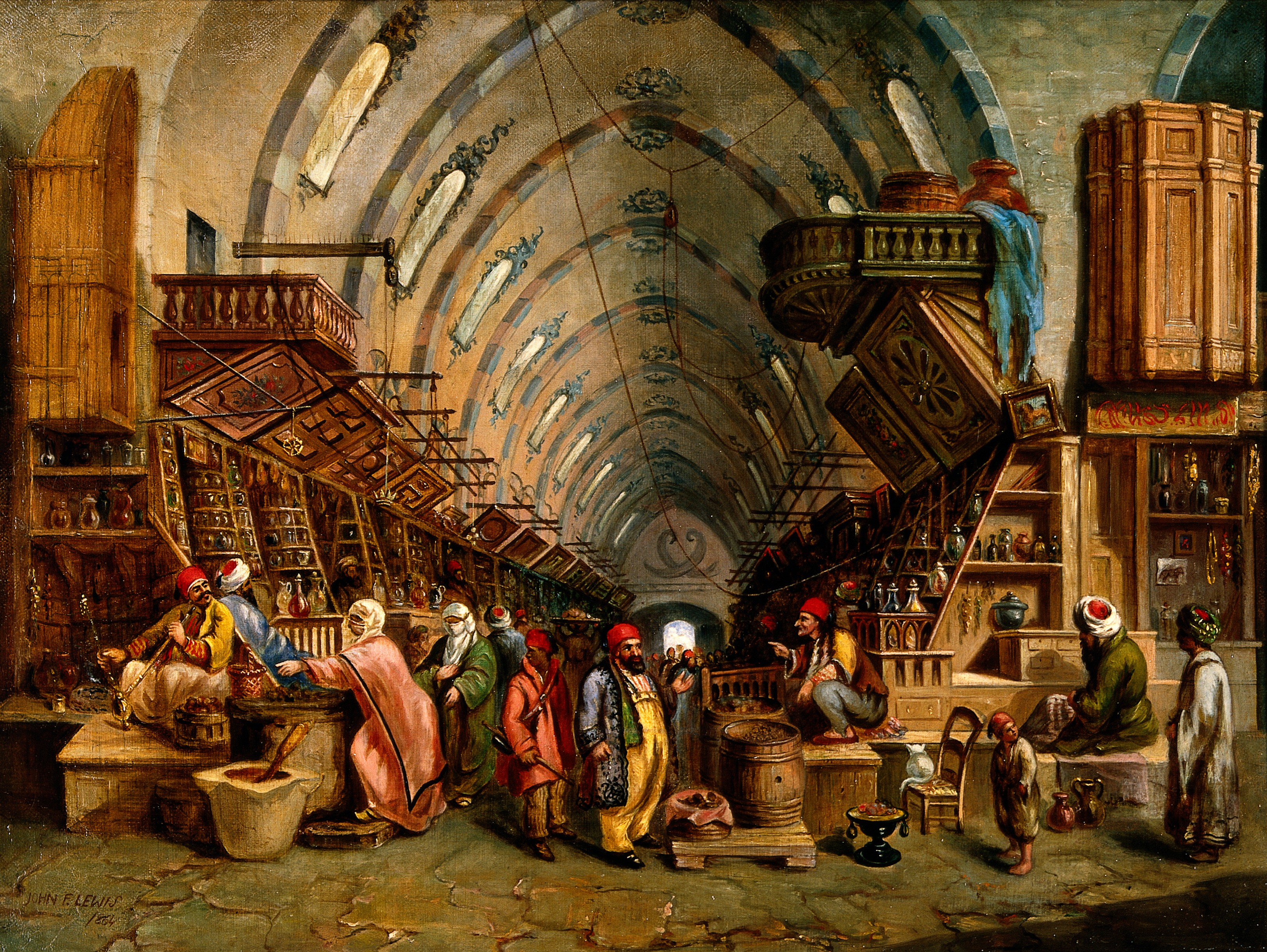 A bazaar. Oil painting. Iconographic Collections